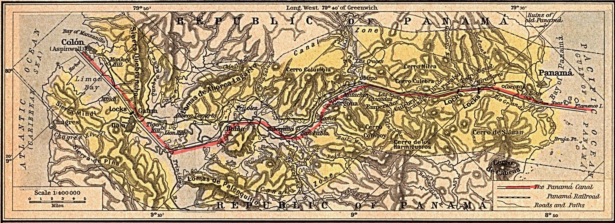 Historical map of the Panama Canal